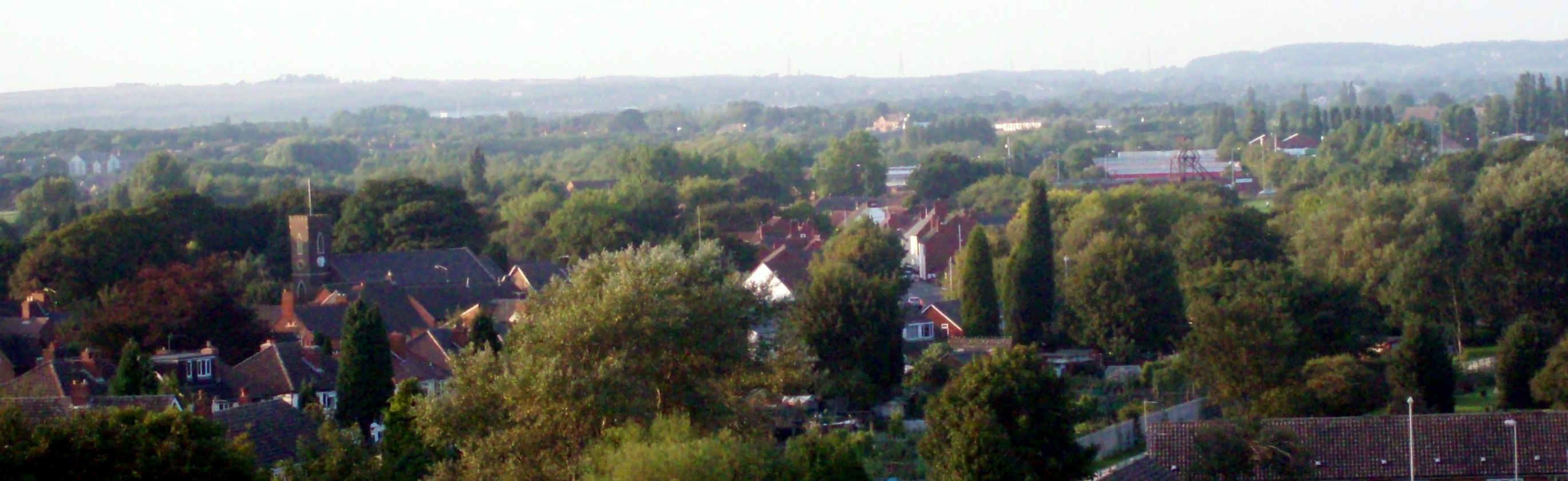 Panorama of Walsall Wood, West Midlands; from the South.